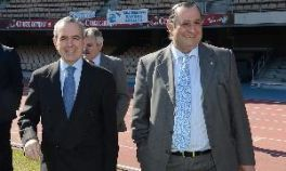 Dos de los presidentes del Xerez, Antonio Millán (izq.) y Joaquín Bilbao (der.)